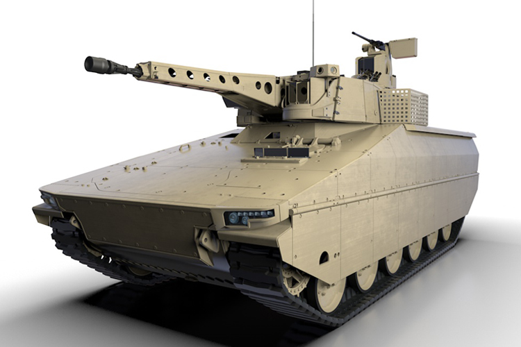 Lynx in reconnaissance configuration.